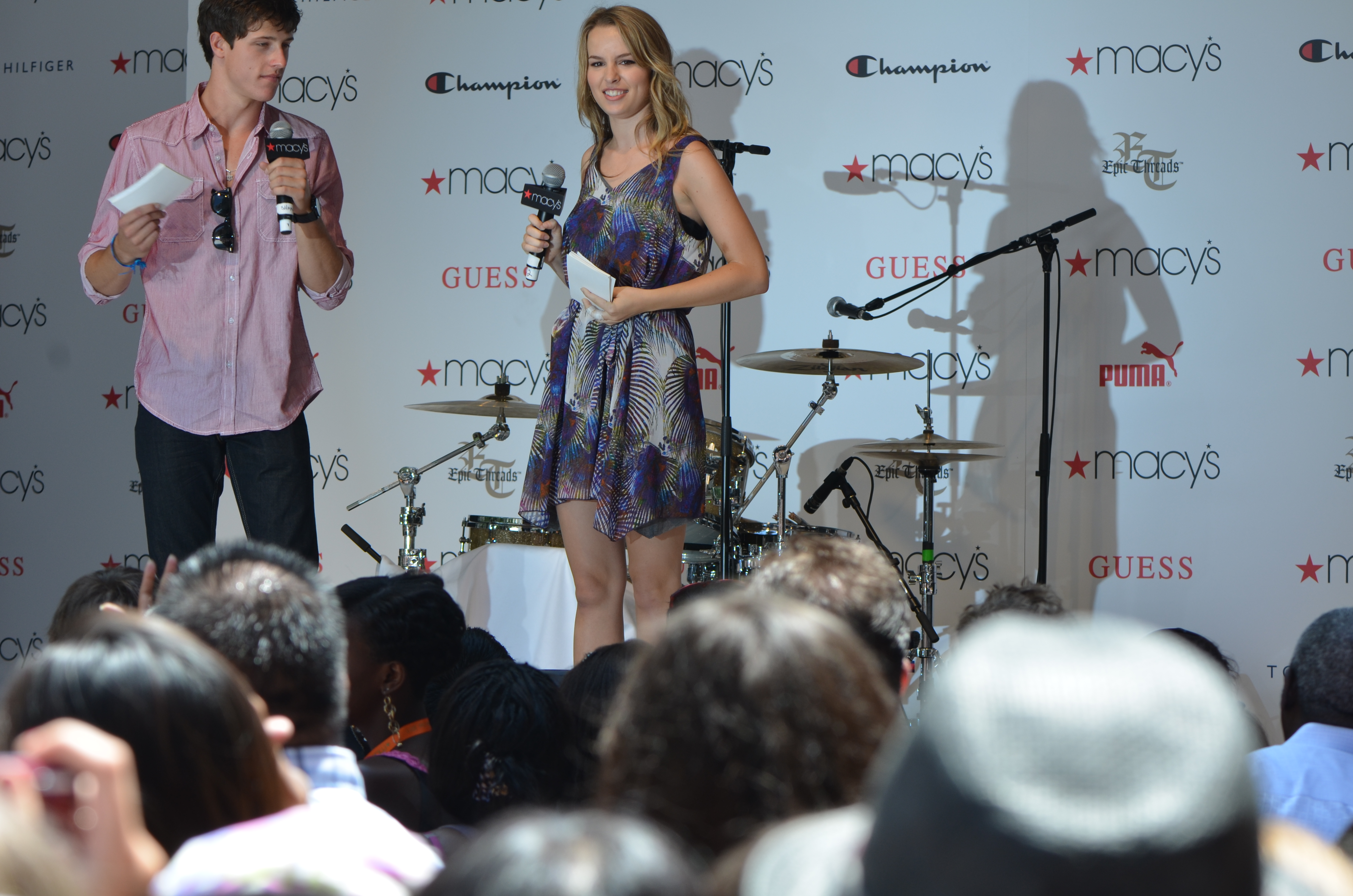 Bridgit Mendler at Macy's Annual Summer Blowout event in Herald Square, New York City, in July 2011